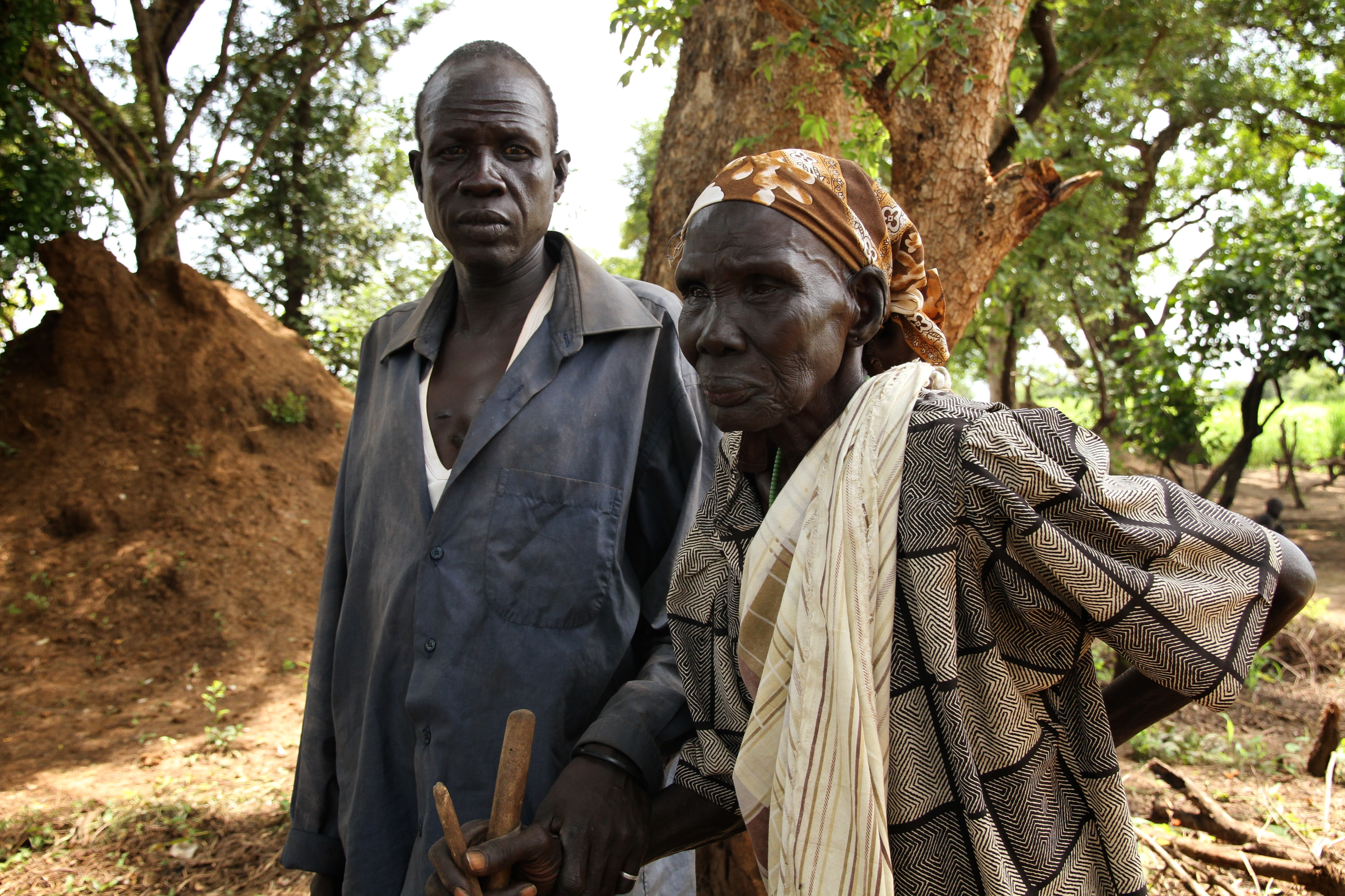 Wiyual is Nyakuer Rambang's only remaining son, as her other three sons were killed in conflict or trying to escape the fighting. 'If the situation is calm in South Sudan I will return, but if not, I will stay here until the problem gets better. Even in the conflict before independence I was okay. This war has cost thousands of lives. Even the last war did not cause so many people to die. It is very difficult for me because I lost my sons.' Photo: Oxfam/Aimee Brown